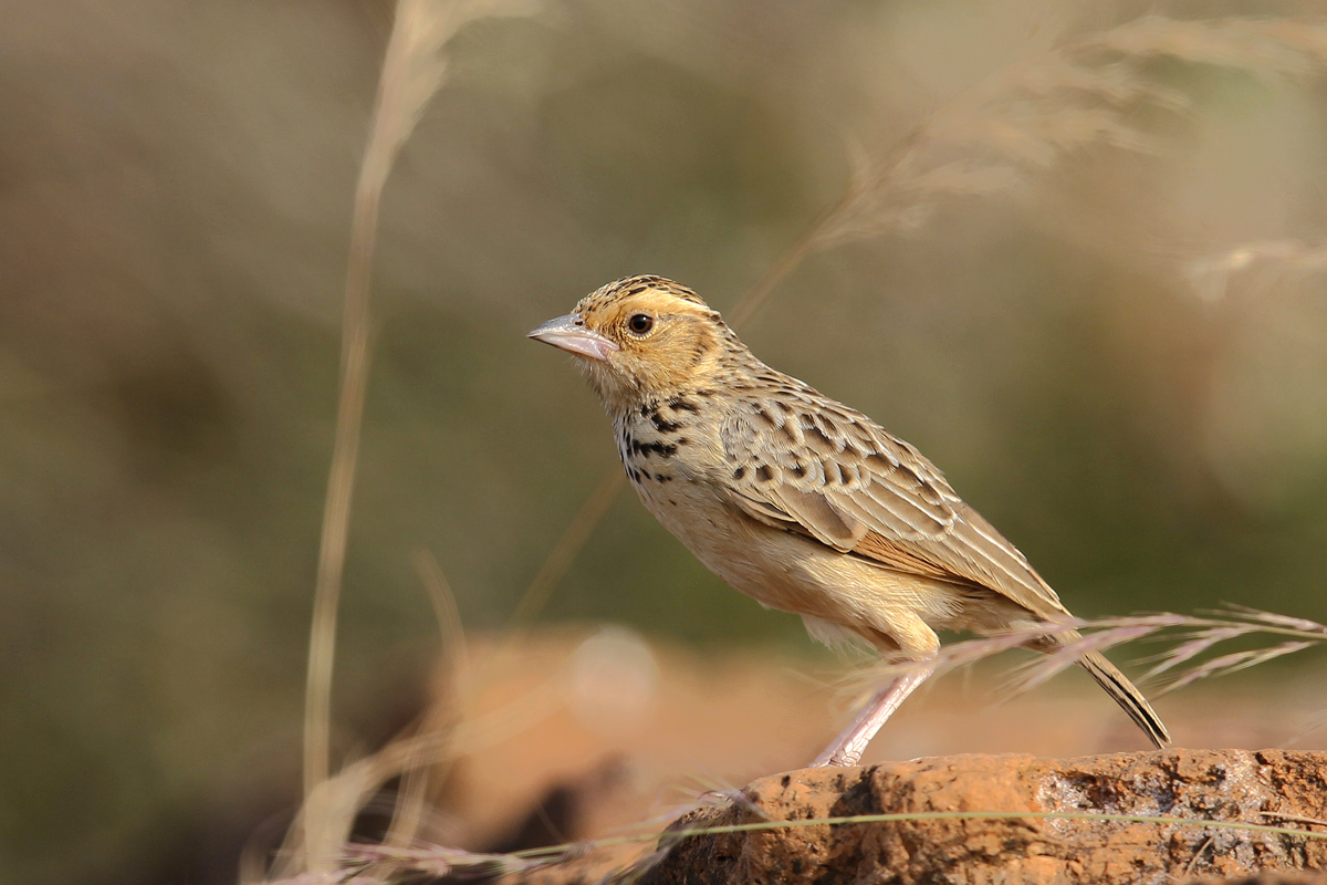 _SYT2344_Burmese bush lark